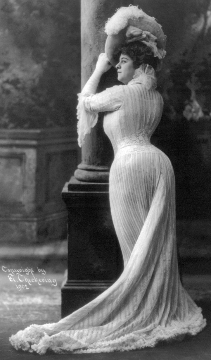 Bianca Lyons, full length, standing, facing left; leaning against pillar